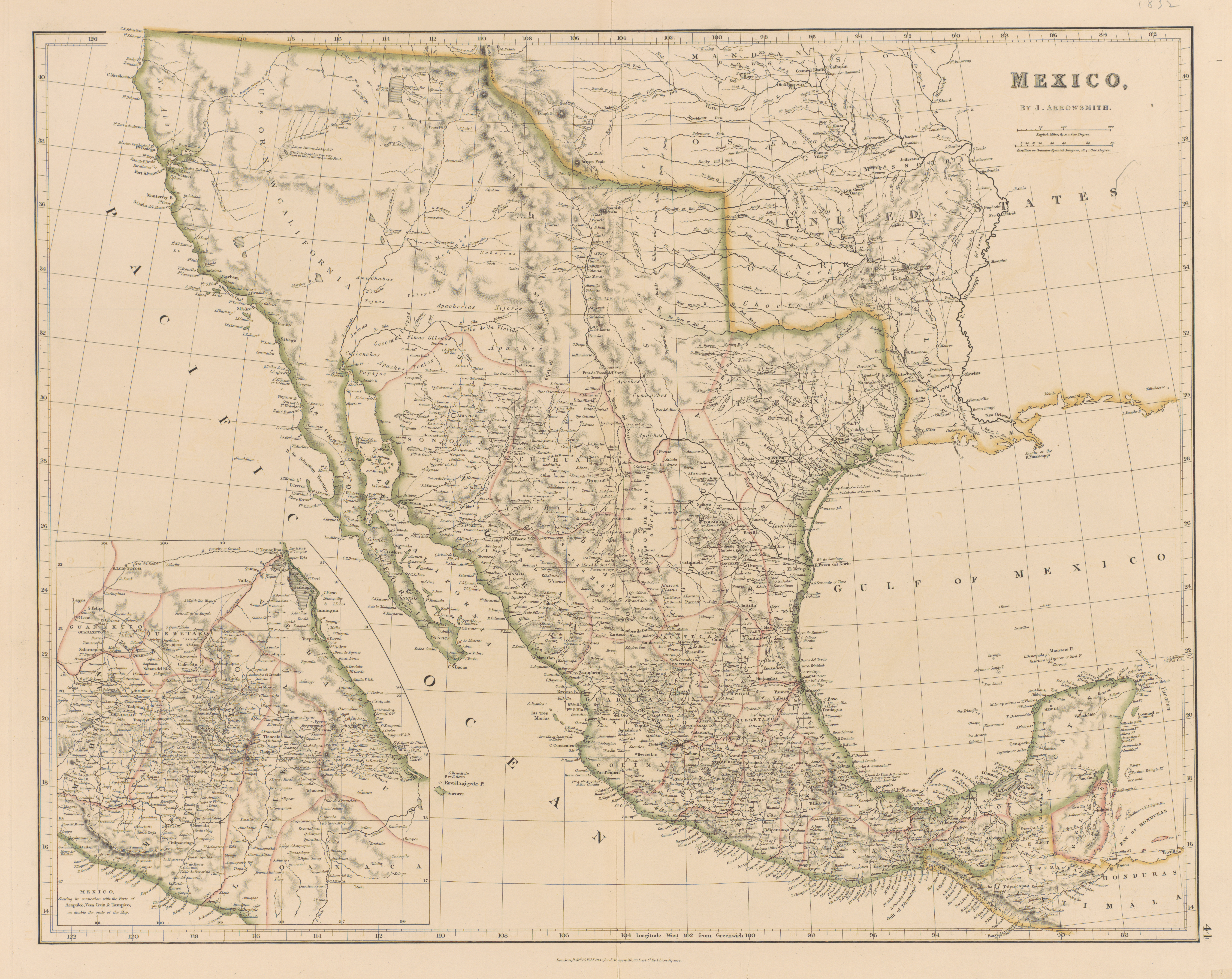 John Arrowsmith's 1832 map of Mexico was a compilation of the latest and best sources available in London and has been called "…arguably the best map of the country published prior to the 1850s."[1] Not surprisingly, John used his uncle Aaron Arrowsmith's 1810 Map of Mexico (which had relied heavily upon Alexander von Humboldt's map of New Spain published in his Atlas Geographique et Physique de la Nouvelle Espagne in 1809 as well as Royal Navy coastal charts) as the base map. However, John's map included a number of the country's important roads for the first time on a printed map, employing double lines to refer to primary roads, single lines for secondary roads, and dotted lines for paths. Much of the information for the roads and trails came from British travelers in Mexico such as diplomat Henry George Ward (1797-1860) and Royal Navy officers R. W. H. Hardy (ca. 1790-1871) and Frederick William Beechey (1796-1856). References ↑ Allen, David Y. (April 2018). "Emerging from Humboldt's Shadow: British Travelers and John Arrowsmith's Maps of Mexico, 1822-1844". Terrae Incognitae 50 (1).